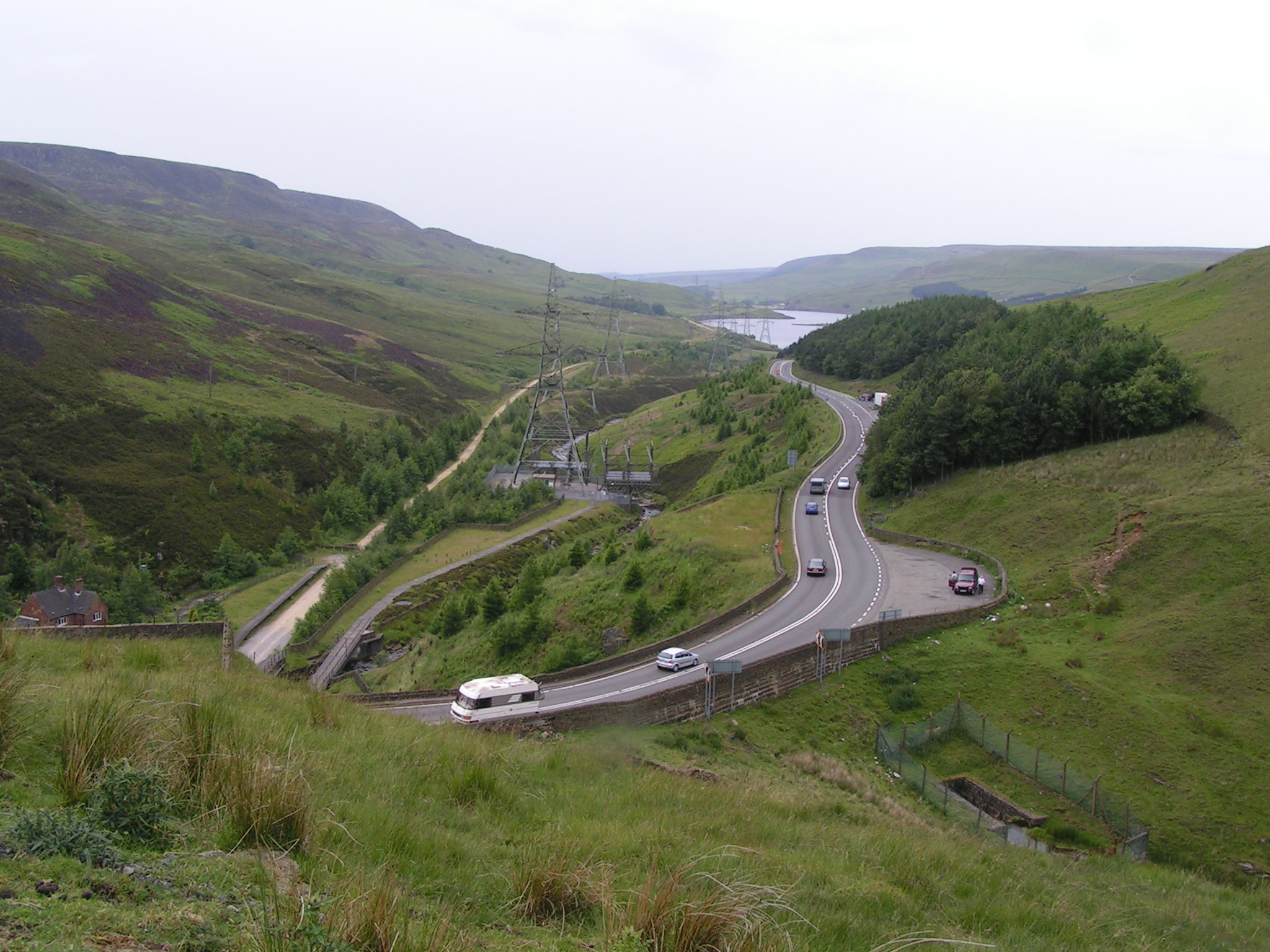 Longdendale, Derbyshire, England, from Woodhead Tunnel . Shows (from left) rear of Woodhead Tunnel western portal, Longdendale Trail, River Etherow and A628 Woodhead Pass road. Woodhead Reservoir appears in the distance. Photograph taken 26th June 2004.